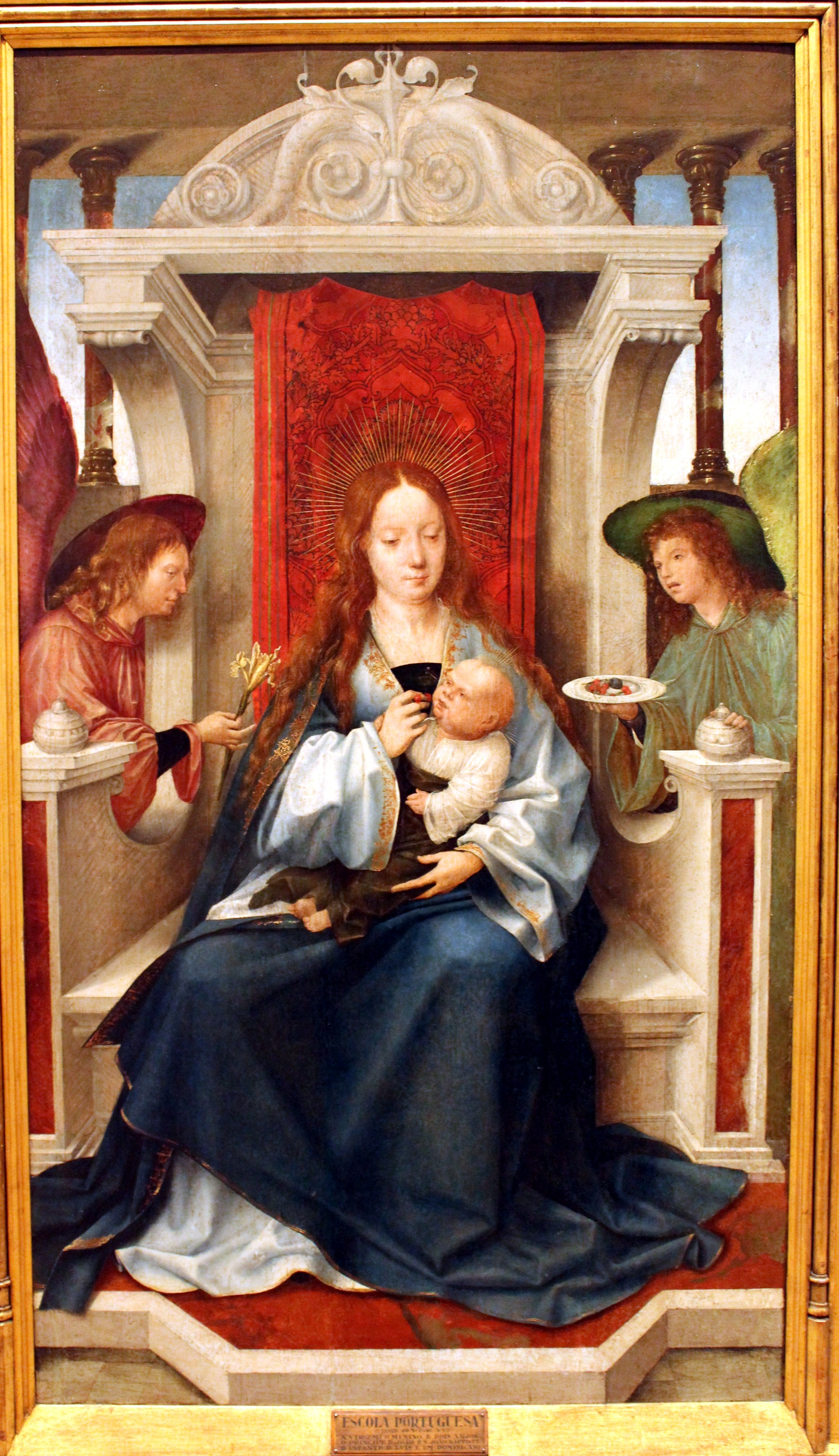 Lisbon, Museum Nacional de Arte Antiga, portuguese school, Virgin with child